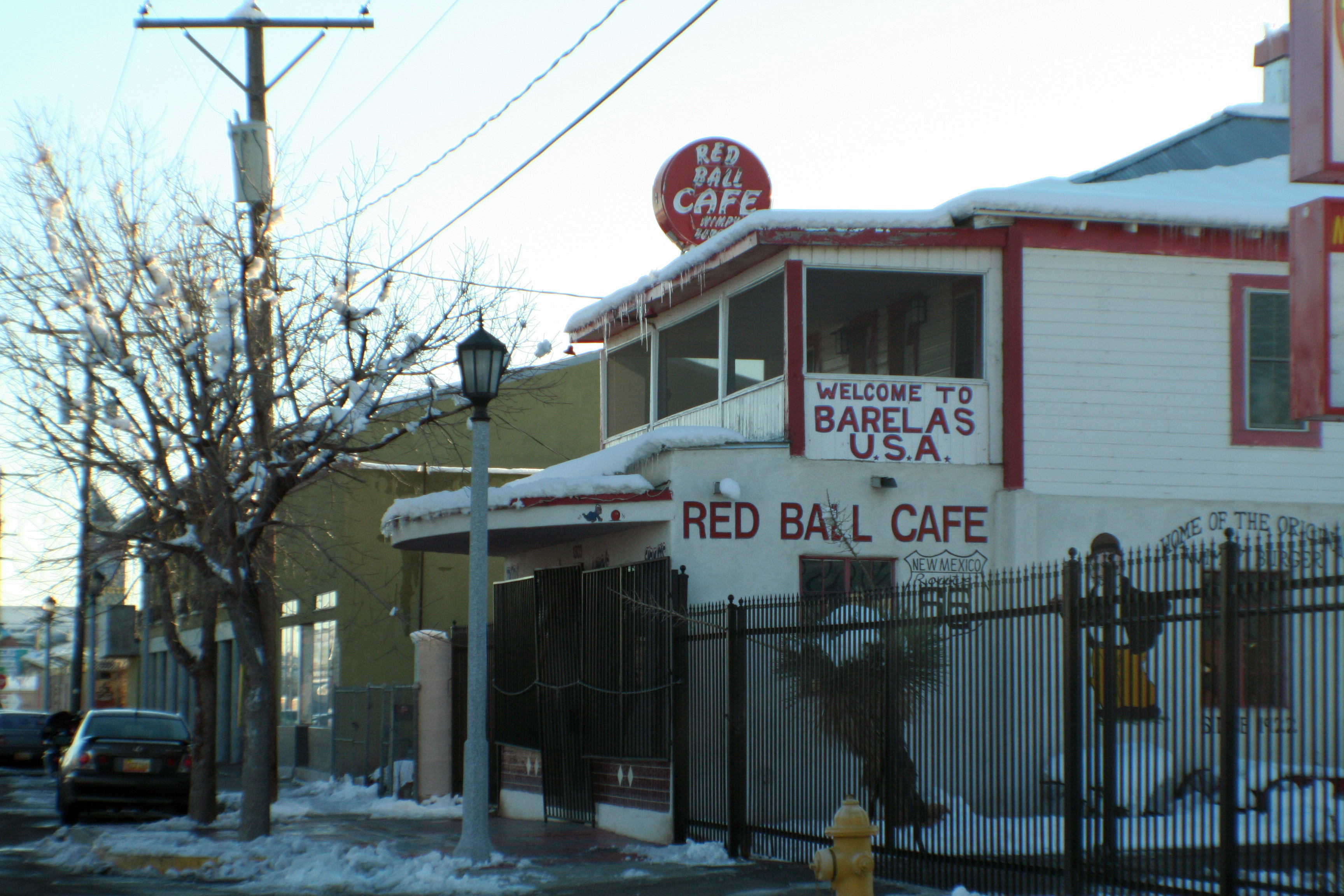 Restored Red Ball Cafe in Barelas, Albuquerque, New Mexico. On old Route 66.